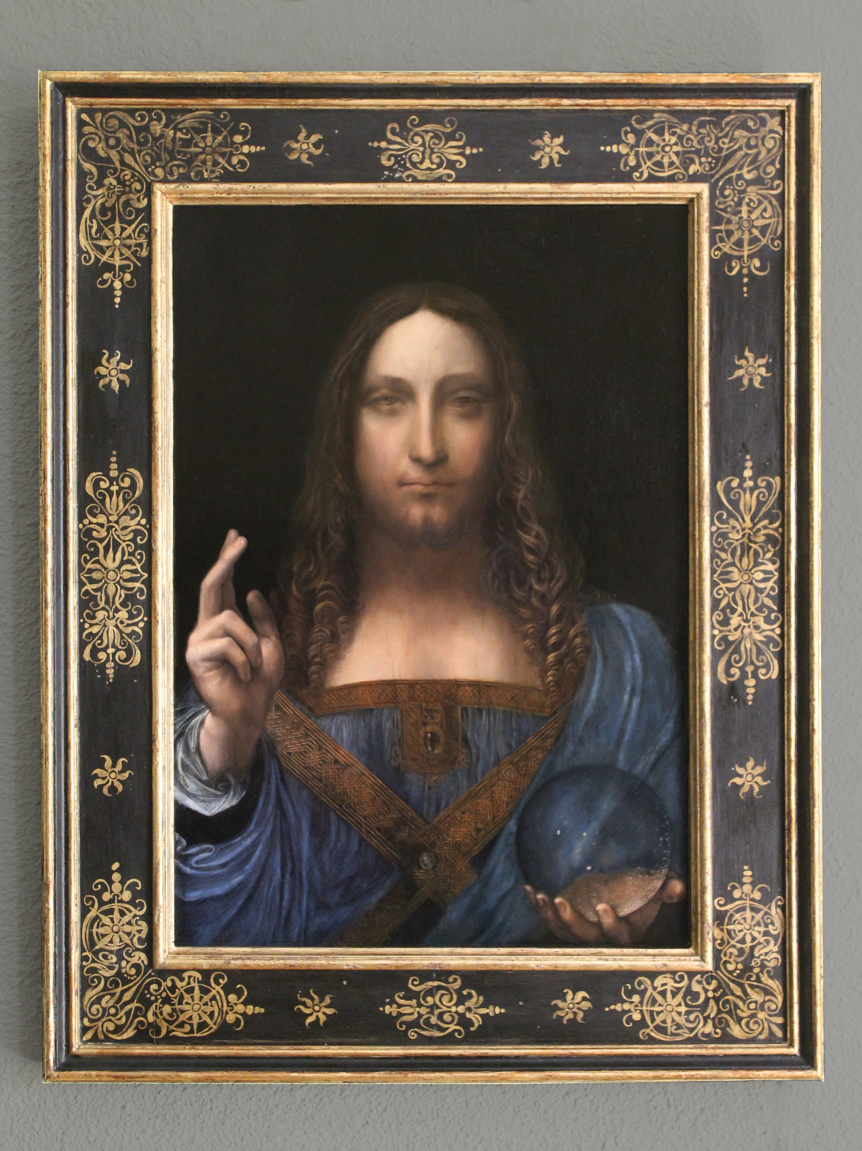 Copia de Manuel Granai